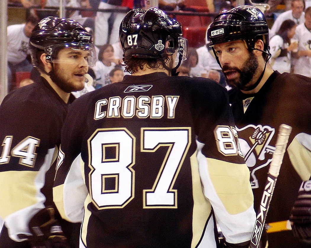 Sidney Crosby, Bil Guerin and Chris Kunitz huddle before an offensive zone faceoff during the third period of the Pittsburgh Penguins 2009 Stanley Cup Finals game 6 against the Detroit Red Wings at Mellon Arena in Pittsburgh, PA. The Penguins prevailed 2-1, forcing a game 7 in Detroit three days later, which the Penguins would also win to earn the third Stanley Cup in team history.